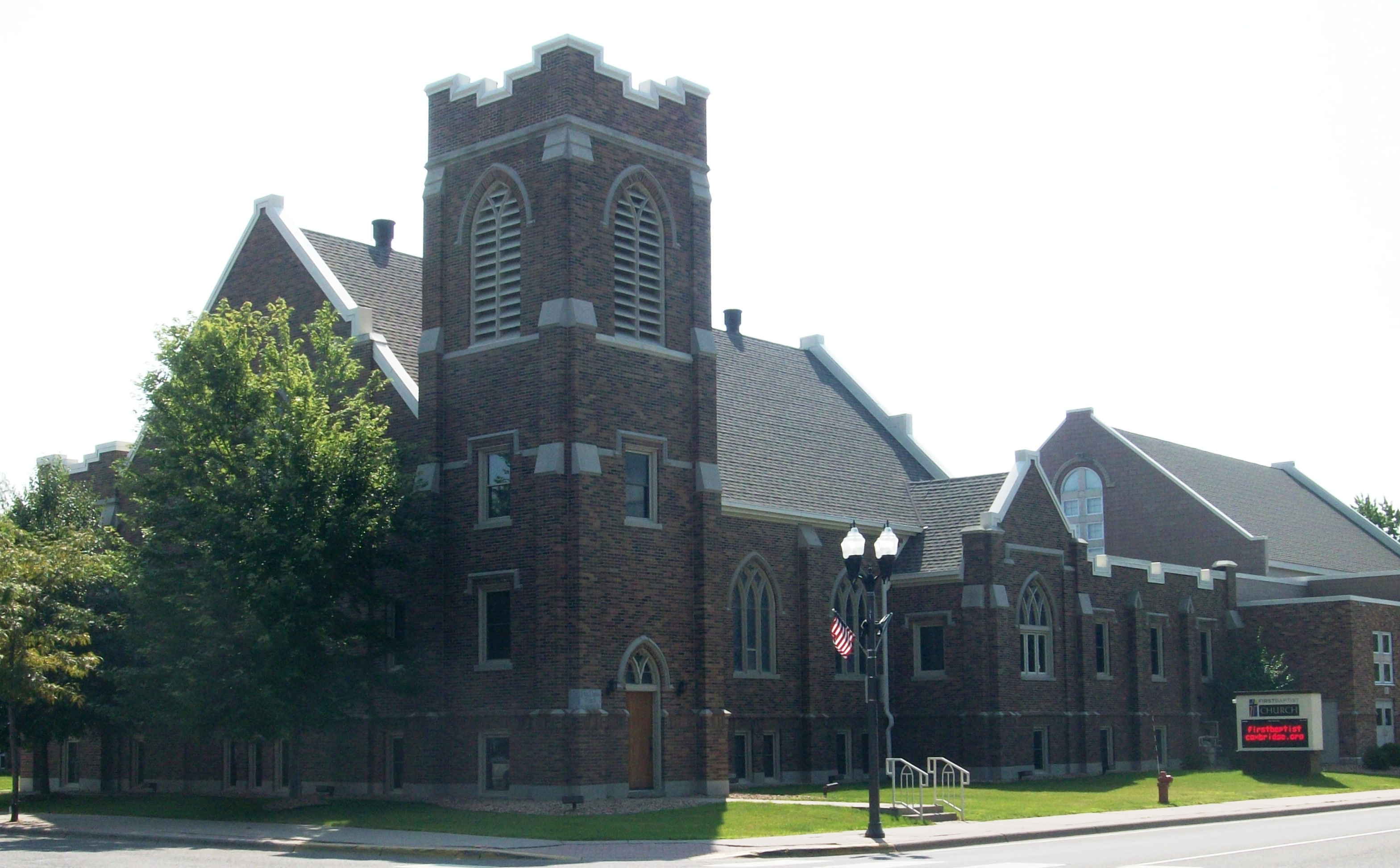 First Baptist Church located at the corner of Main Street and 3rd Avenue in Cambridge, Minnesota.